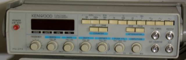 Kenwood FG273 Function Generator